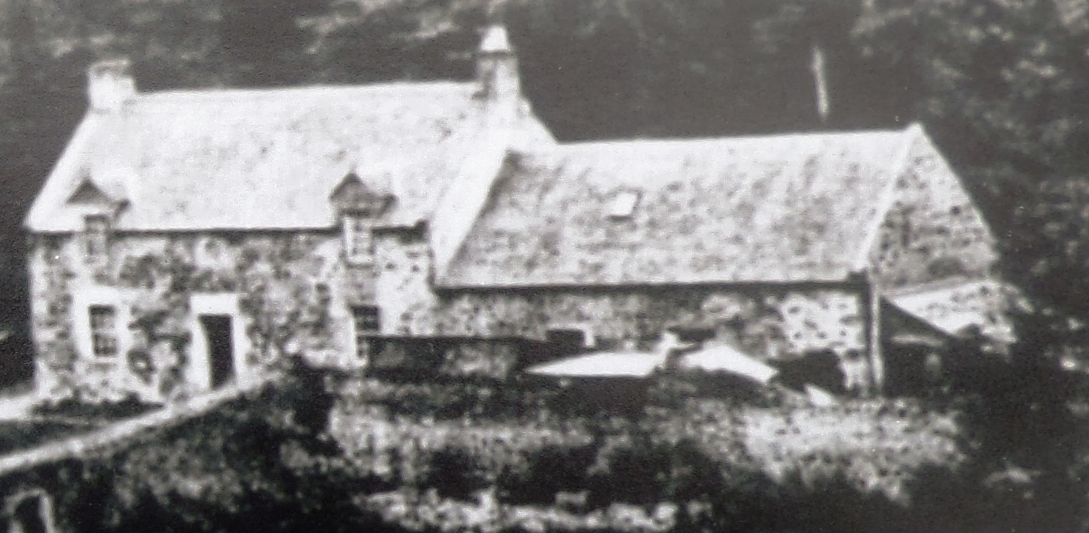 Borland Farm, Dunlop prior to 1916. East Ayrshire, Scotland.